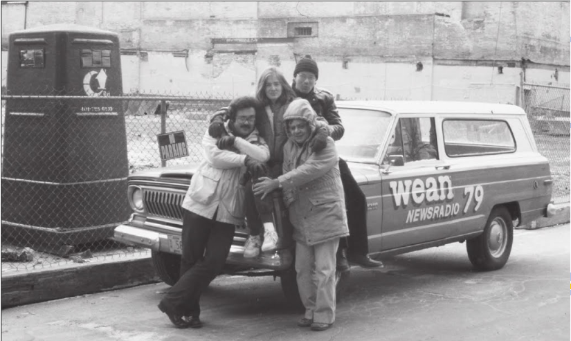 Clockwise: Mike Cabral, Caroline Mangan, Paul Zangari and Robert Drake - all reporters and/or anchors at WEAN, Newsradio 79, on the "WEANie Wagon" as it was called in the newsroom.